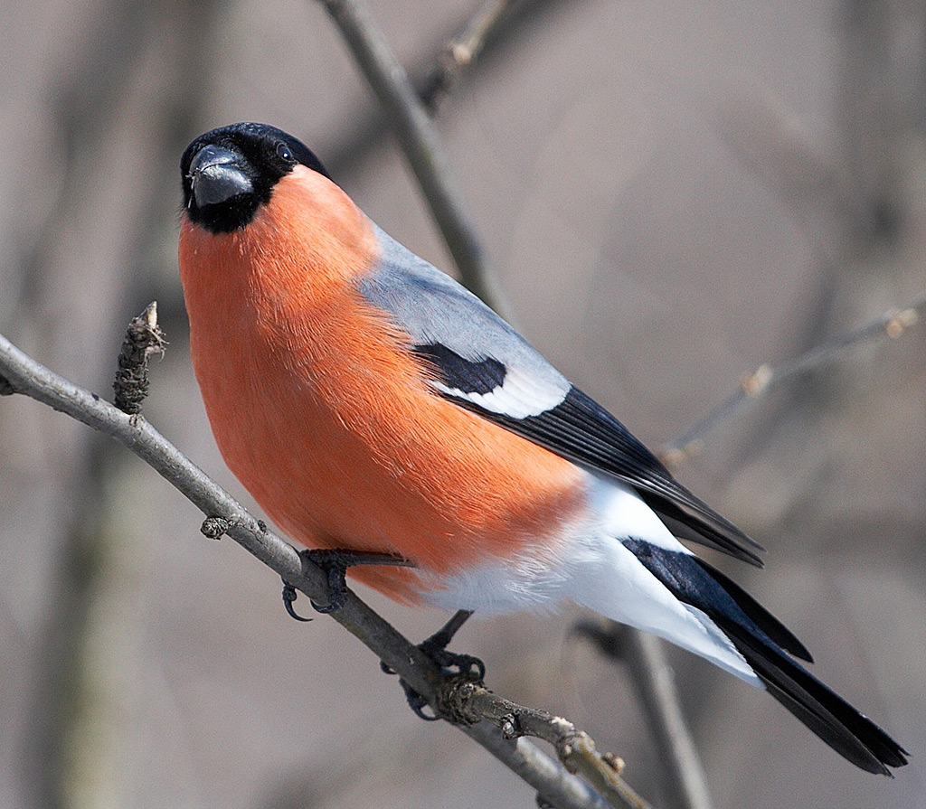 male of Eurasian bullfinch